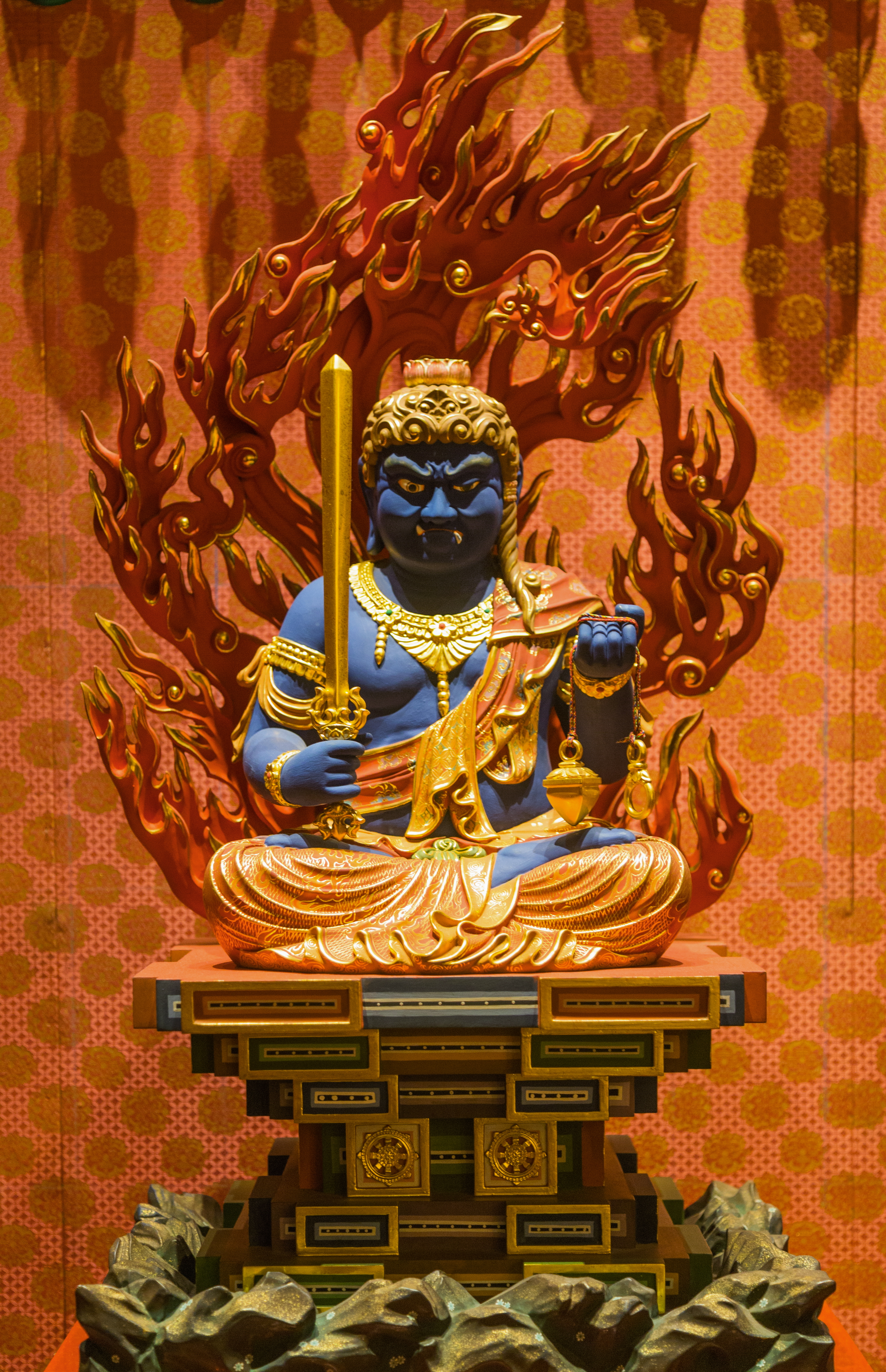 Acala. Buddha Tooth Relic Temple and Museum. Chinatown, Central Region, Singapore.